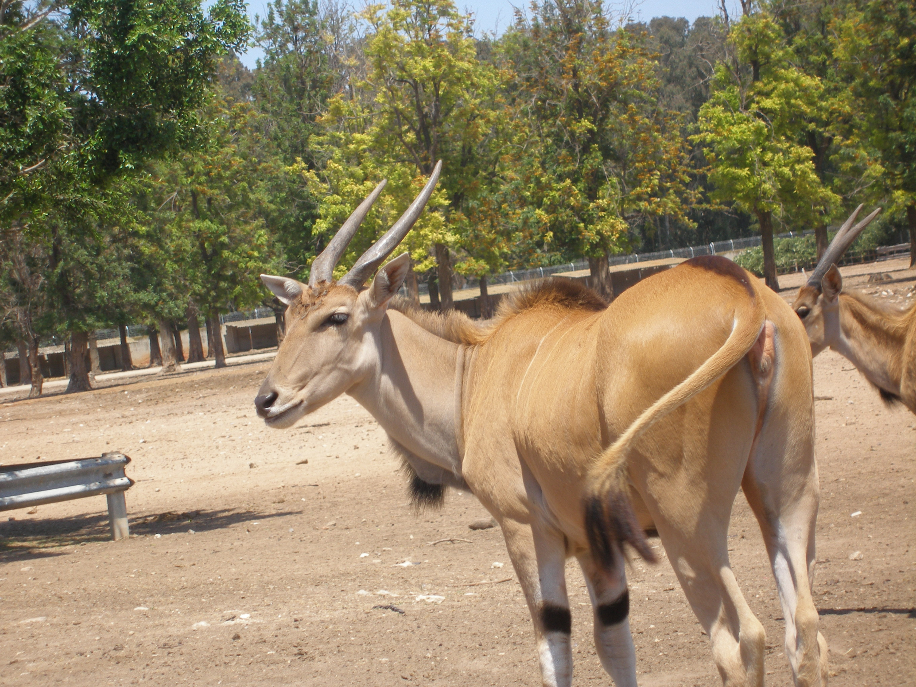 Taurotragus. Taken in the Zoological Center of Tel Aviv-Ramat Gan, Israel